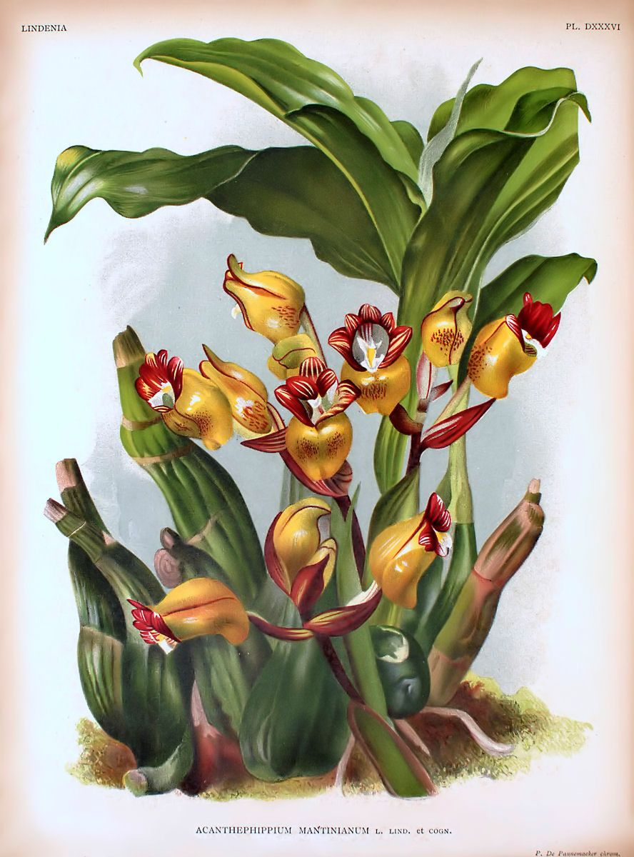 Acanthephippium mantinianum